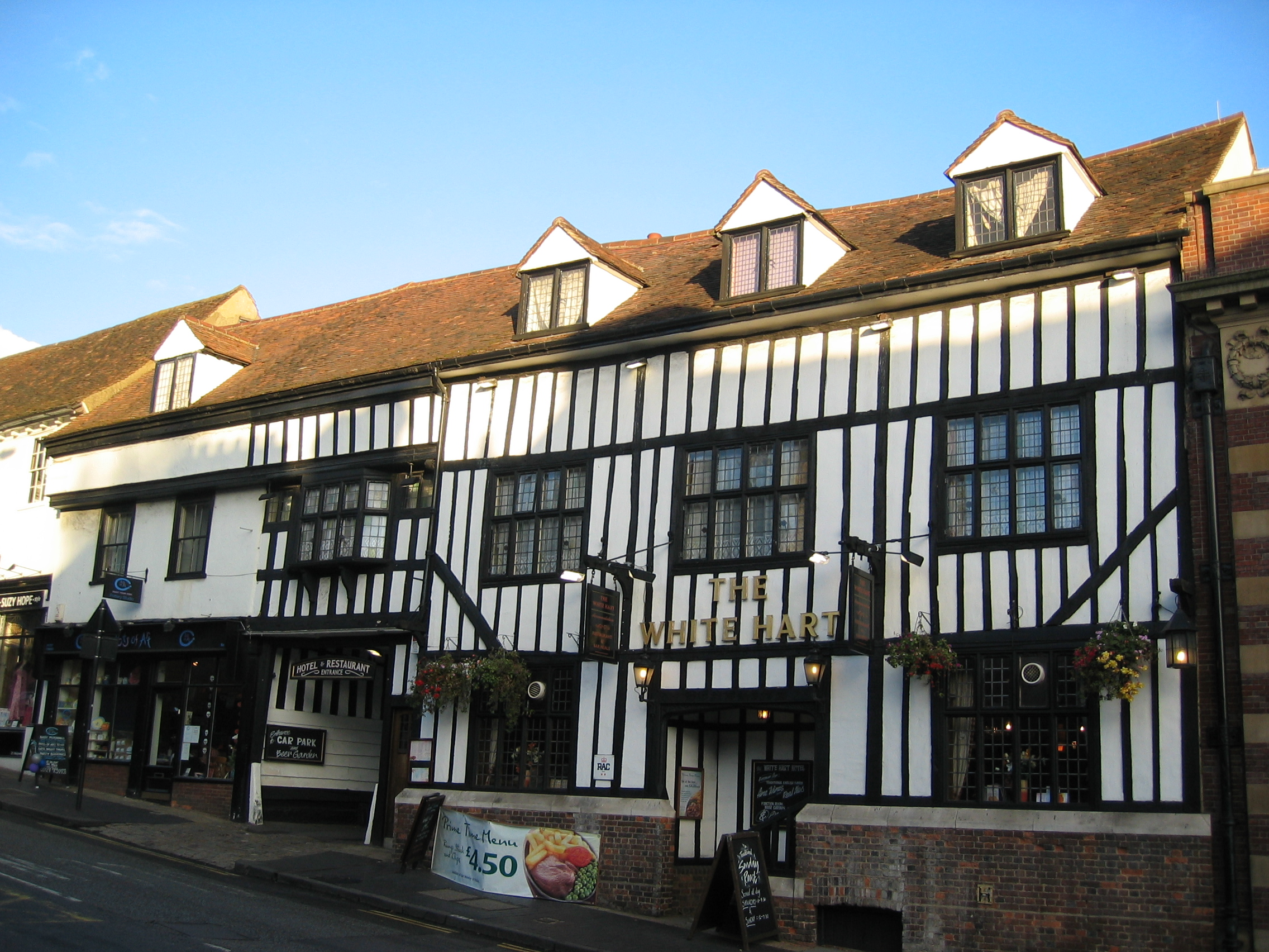 The White Hart, Holywell Hill, St Albans, Hertfordshire, England, UK